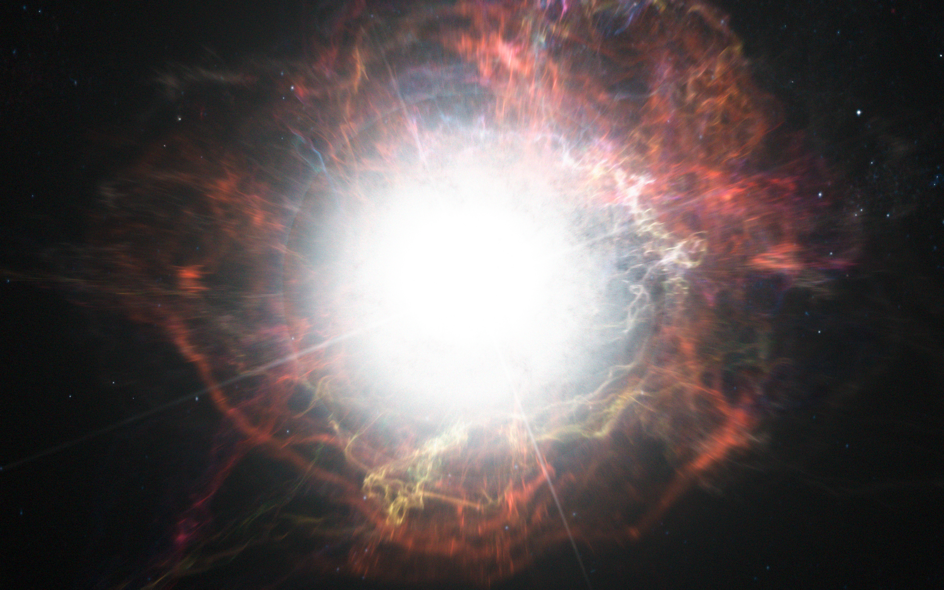 This artist’s impression shows dust forming in the environment around a supernova explosion. VLT observations have shown that these cosmic dust factories make their grains in a two-stage process, starting soon after the explosion, but continuing long afterwards.